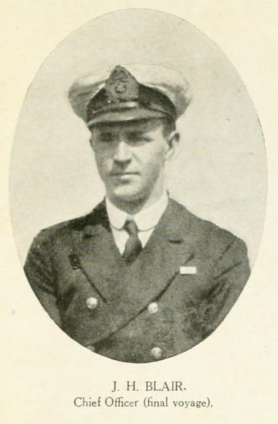 JH Blair - "Officers of the Aurora", from With the "Aurora" in the Antarctic, 1911-1914 (1919).